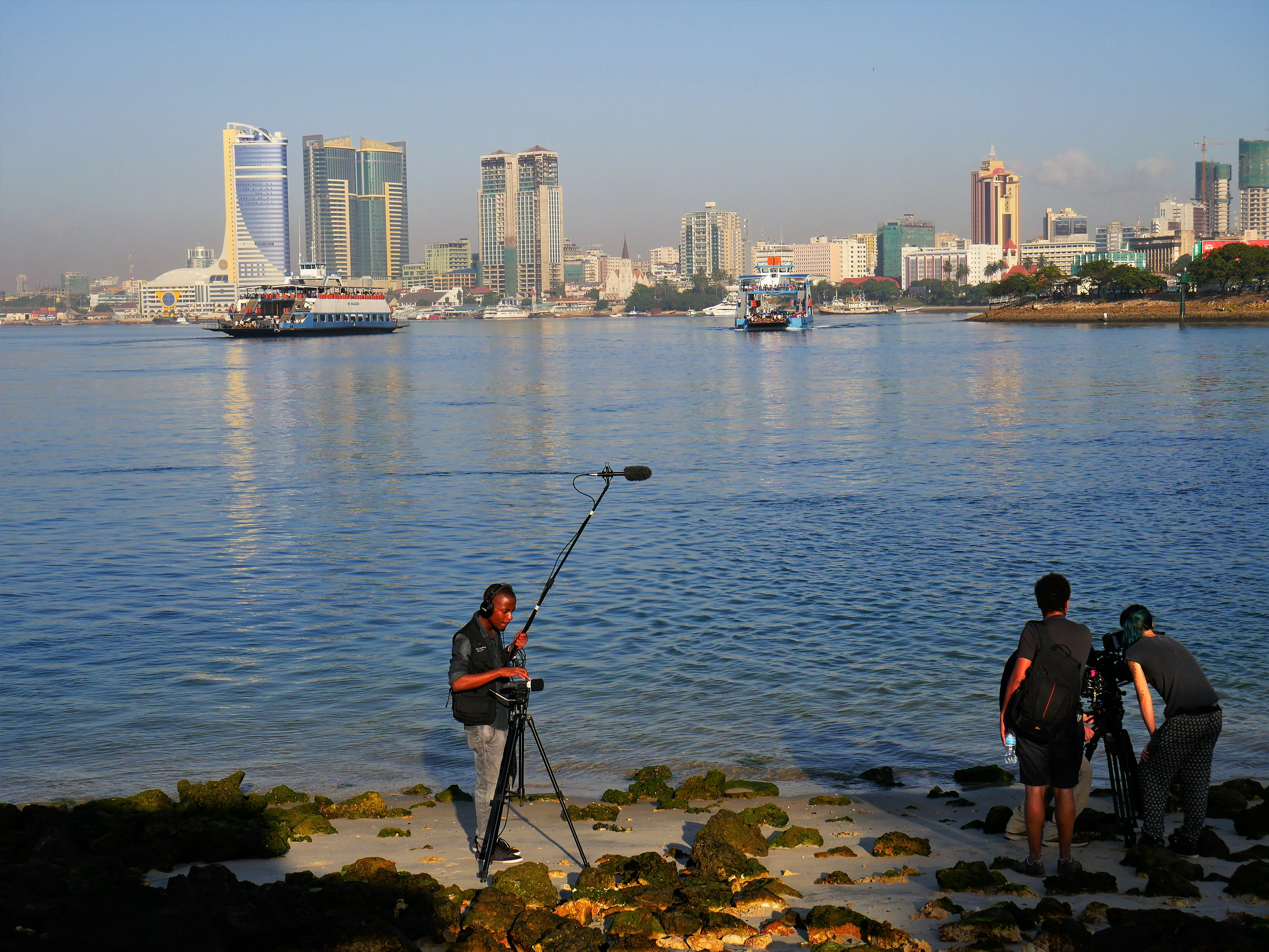 Photography: A creating of a documentary at the port of Dar es Salaam with filmmakers at work. Transport in Dar es Salaam: 2 motor vessels, MV Magogoni and MV Kazi, on their way from and to the Zanzibar ferry terminal near Saint Joseph Cathedral, the old church in the middle of some Skyscrapers in Tanzania. Taken October 2017 in Africa.